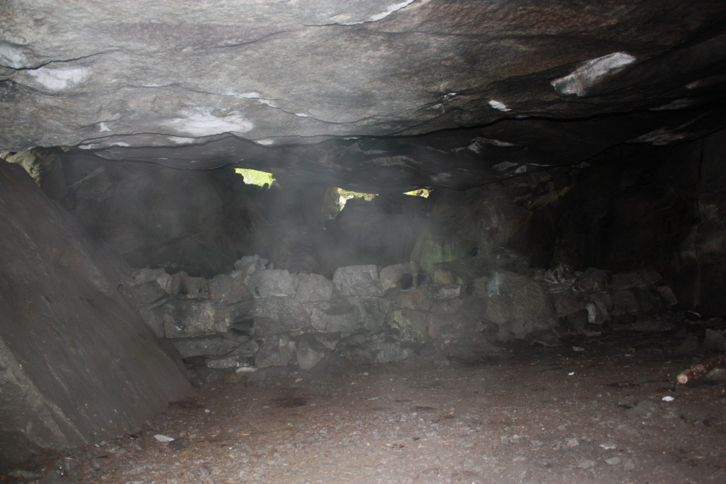 Inside Uburhedlaren in Oltedal, Norway